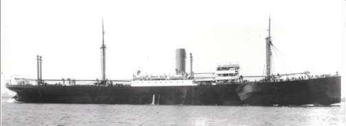 The German motorfreighter ERMLAND